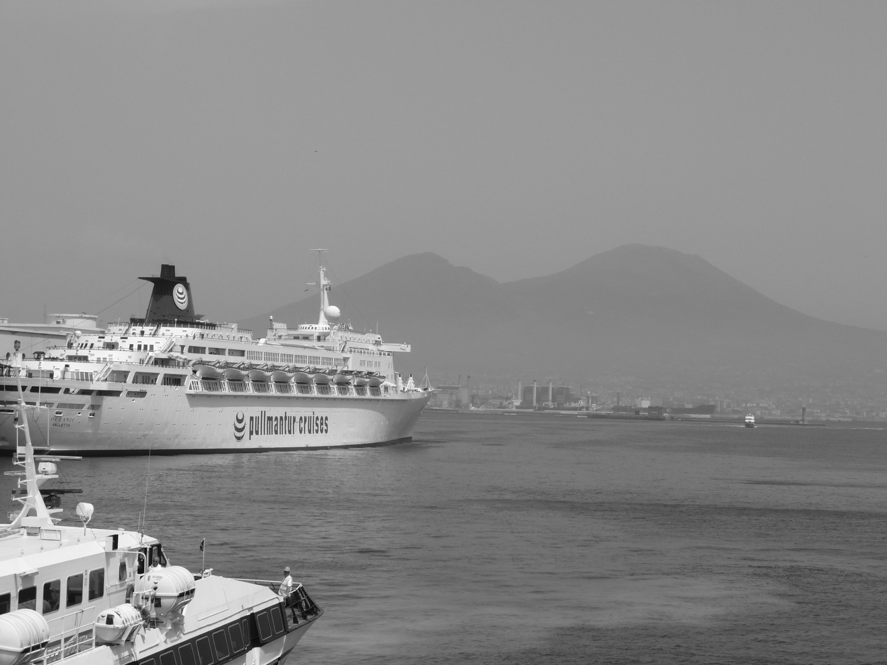 The OCEANIC, homeport Valetta, Malta